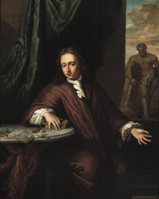 Portrait of a goldsmith with the Hercules Farnese This image is available from the Netherlands Institute for Art Historyunder digital ID 104341. This tag does not indicate the copyright status of the attached work. A normal copyright tag is still required. See Commons:Licensing.